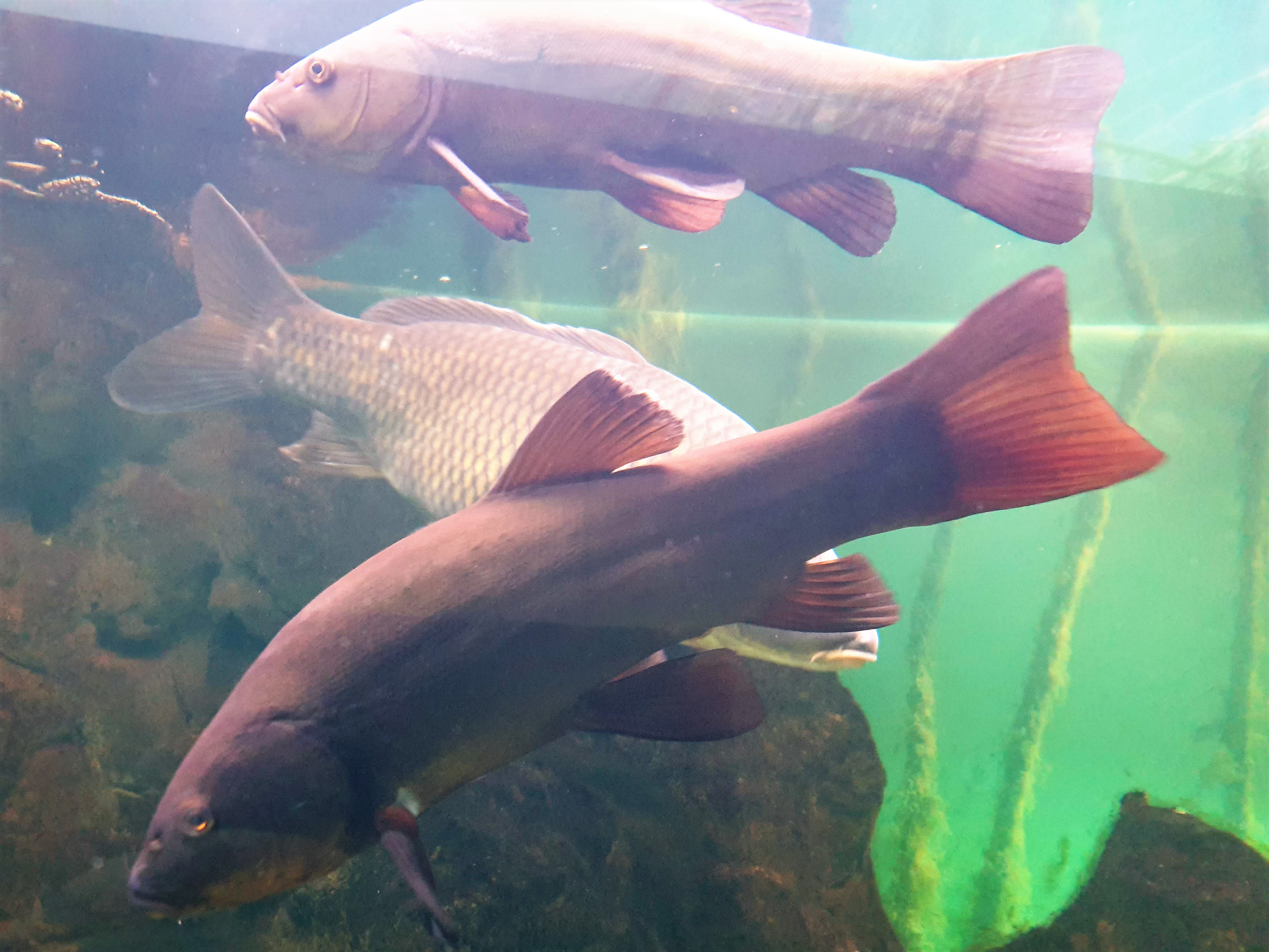 Tenches or doctor fishes (Tinca tinca) at the Bodorka Balaton Aquarium in Balatonfüred, Hungary.